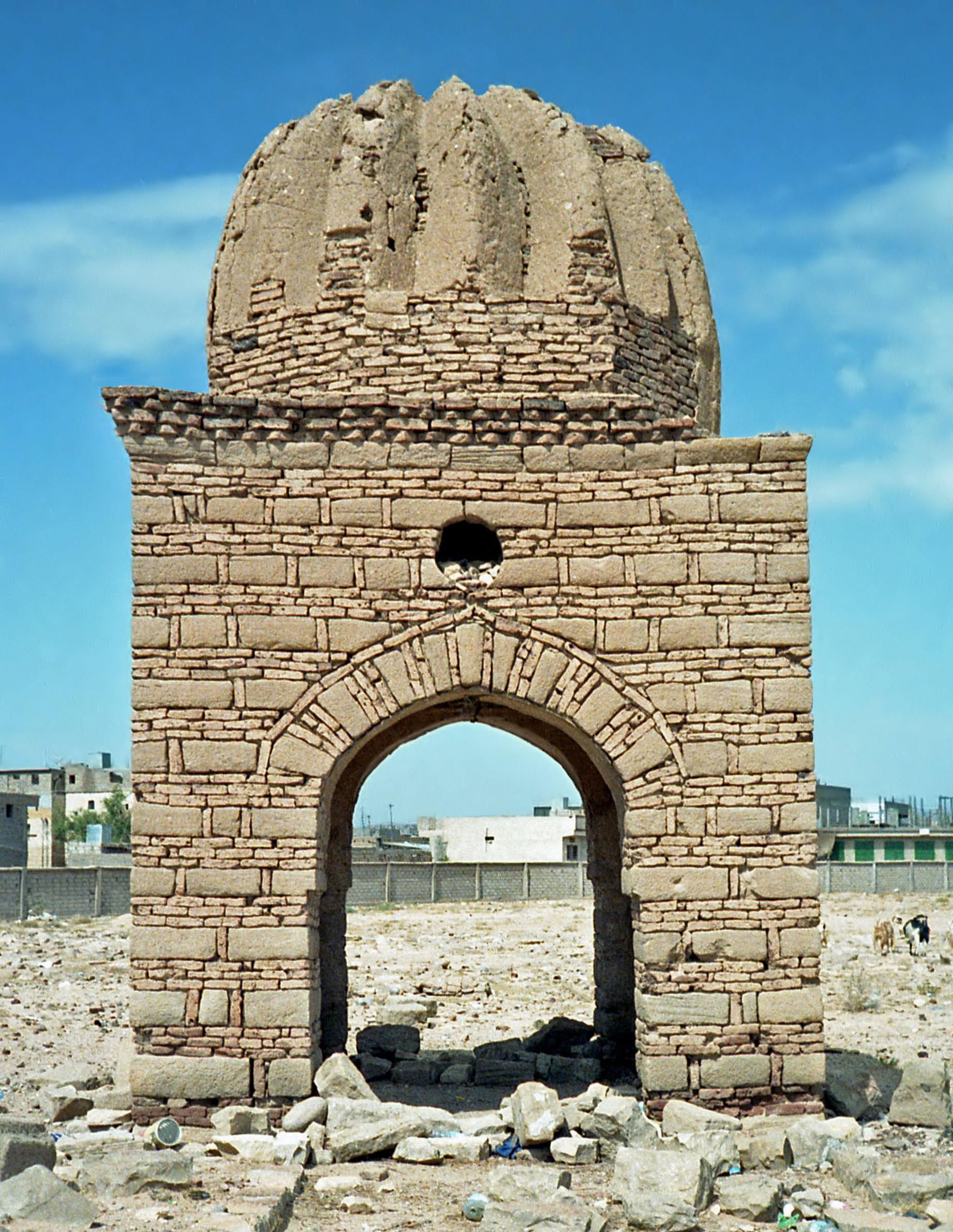 Cemetery in Sa'dah, Yemen